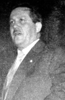 Edvard Kardelj